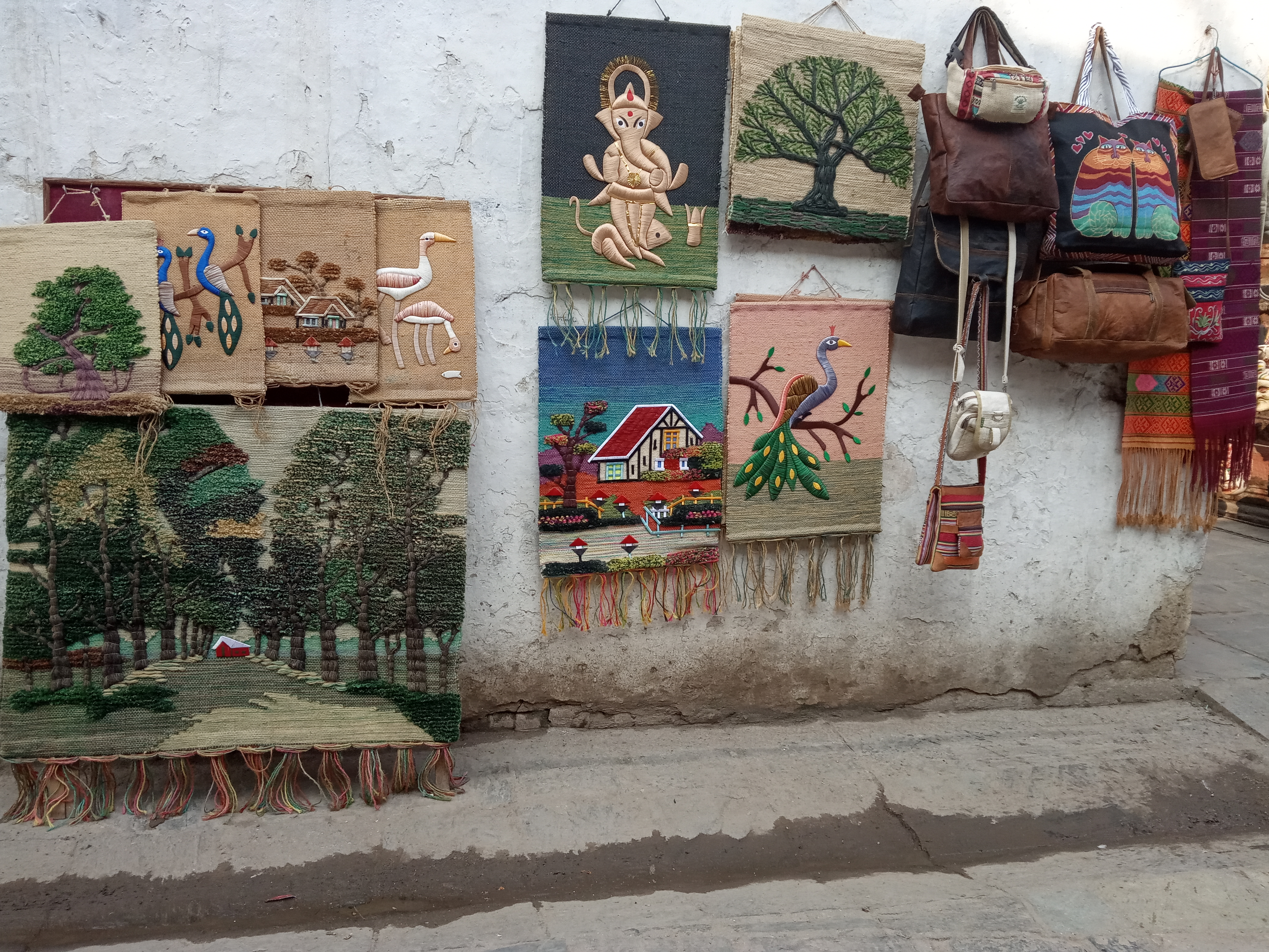 Handicraft